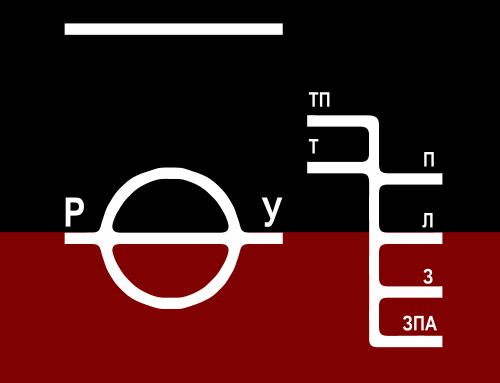 load line